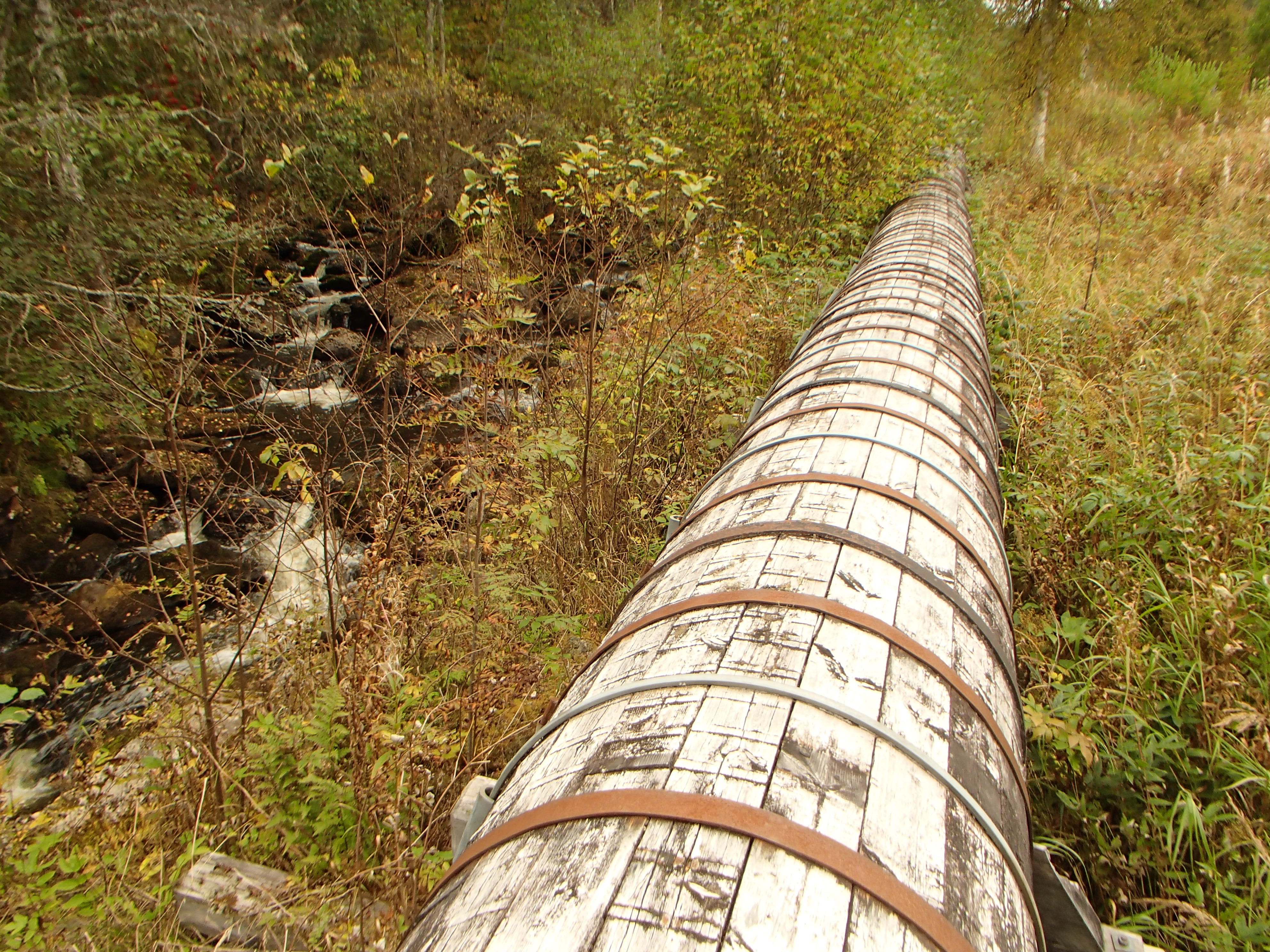 The sawmill building of "Åsens sågverksanläggning" at Åsen in Liden, Sundsvall municipality